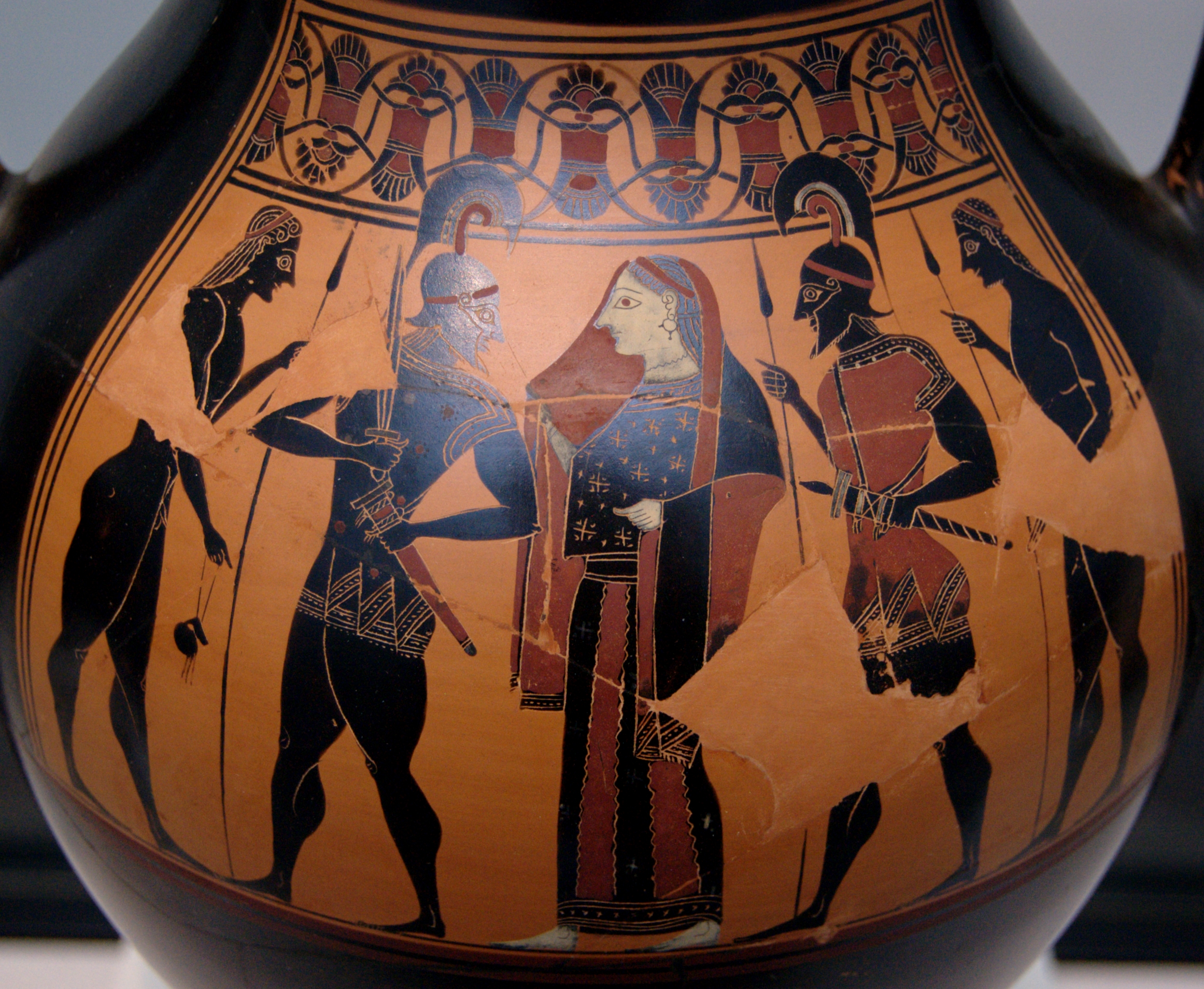 Recovery of Helen by Menelaus. Side B of an Attic black-figure amphora, ca. 550 BC. From Vulci.